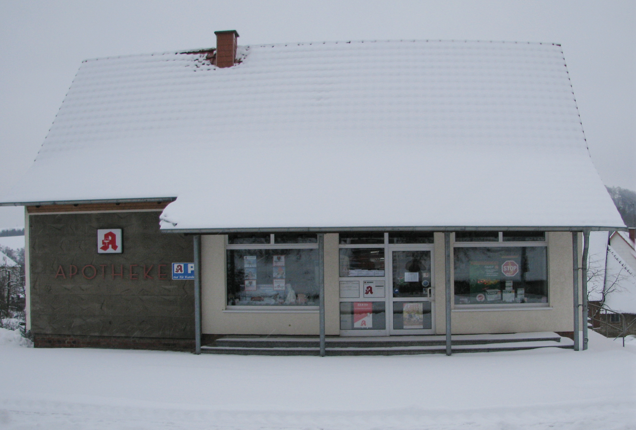 Pharmacy in thuringian town of Weißenborn-Lüderode